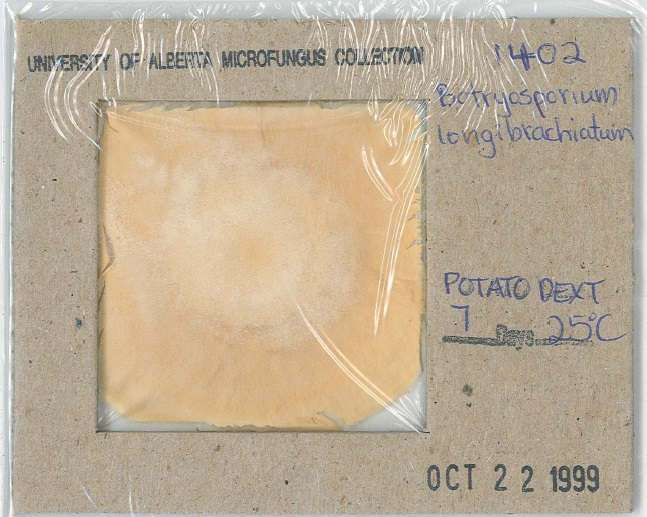 Photograph of dried fungus colony